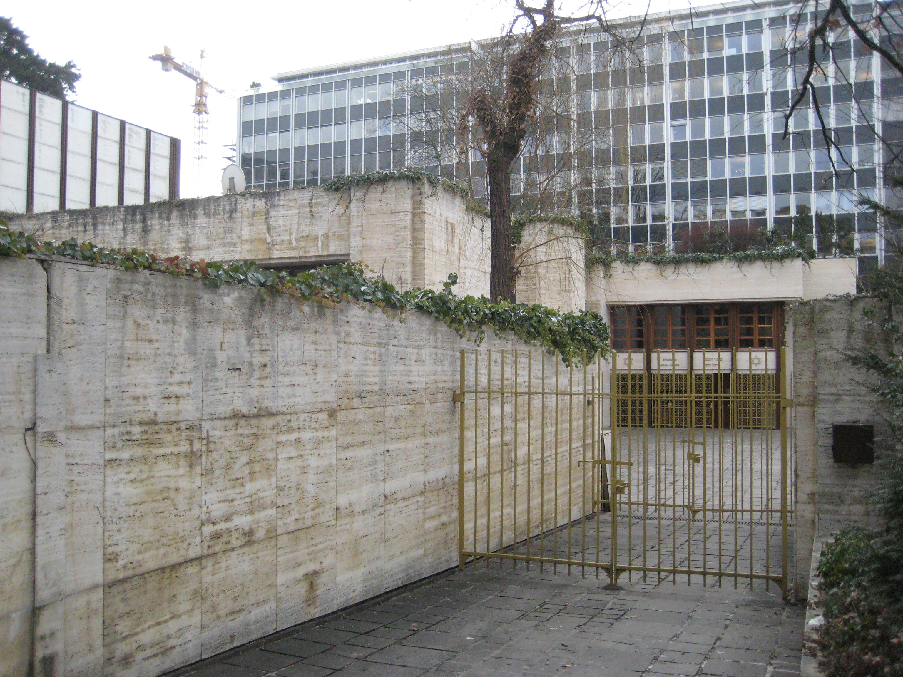 Hekhal Haness Synagogue